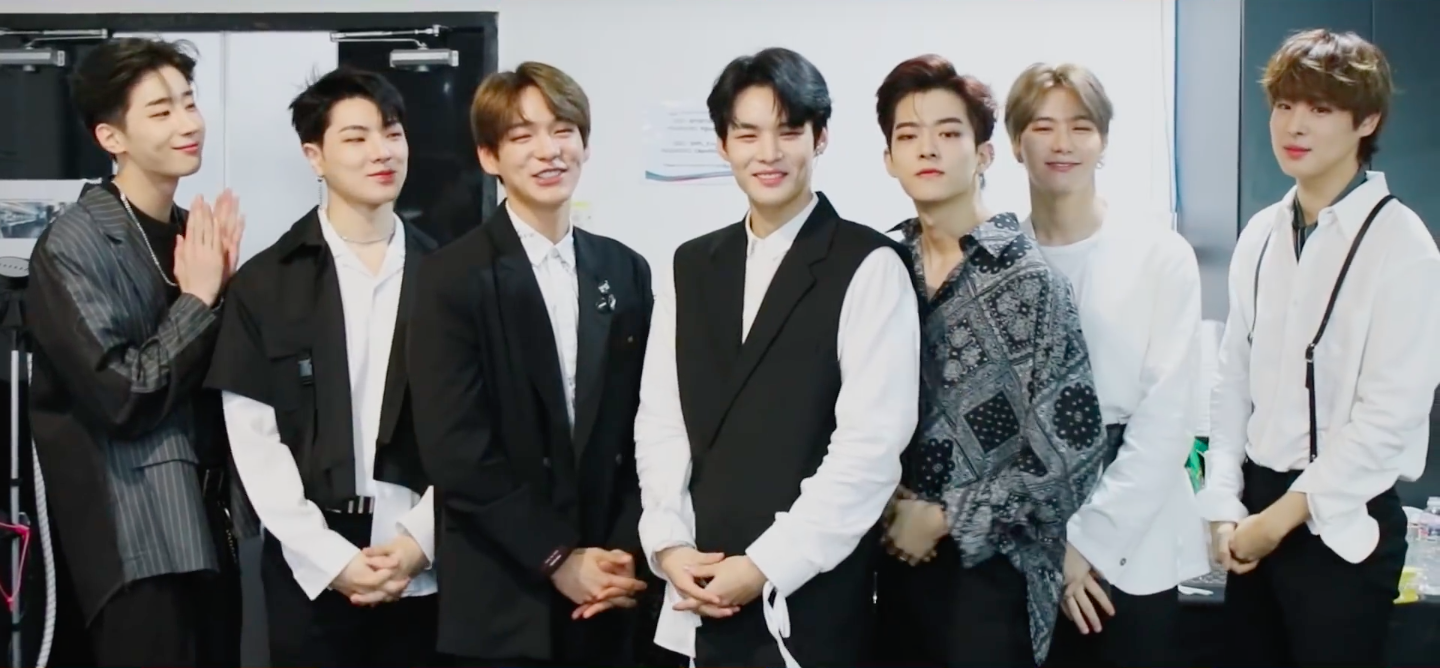 Victon, a South Korean boy group formed by Plan A Entertainment, in 2018.